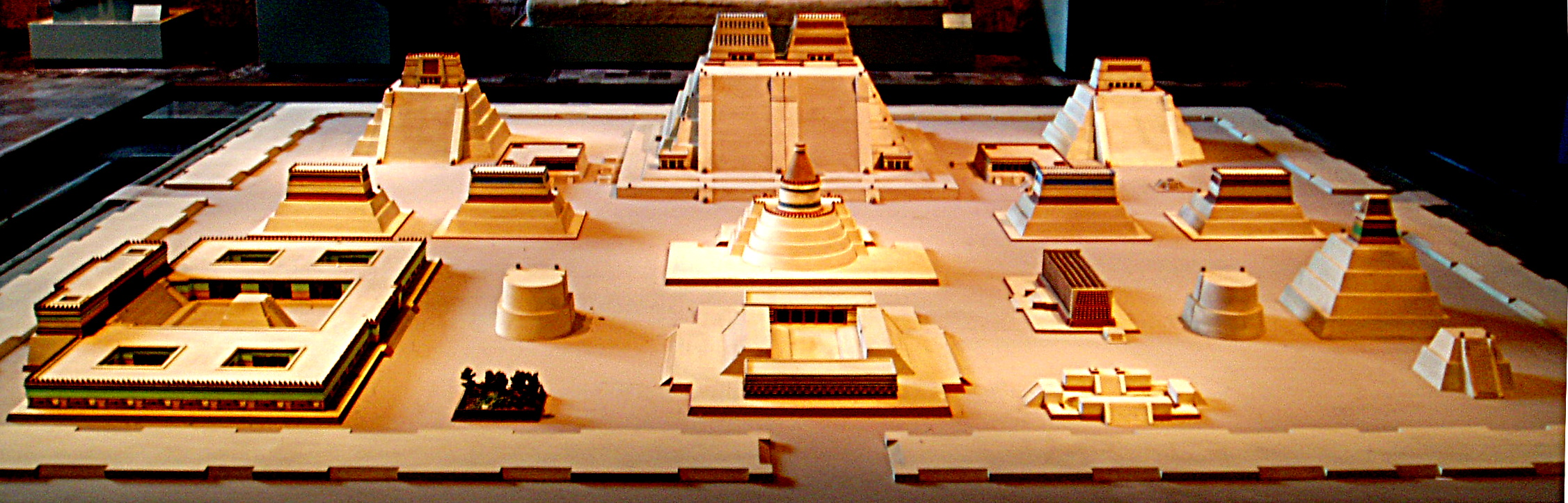 Tenochtitlan was the Aztec (or Mexica) city that stood where Mexico City is now. This model is in the National Anthropological Museum, Mexico City.